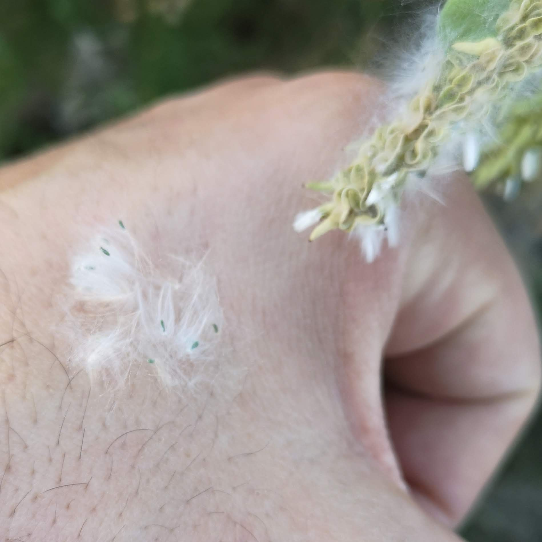 Salix caprea seeds